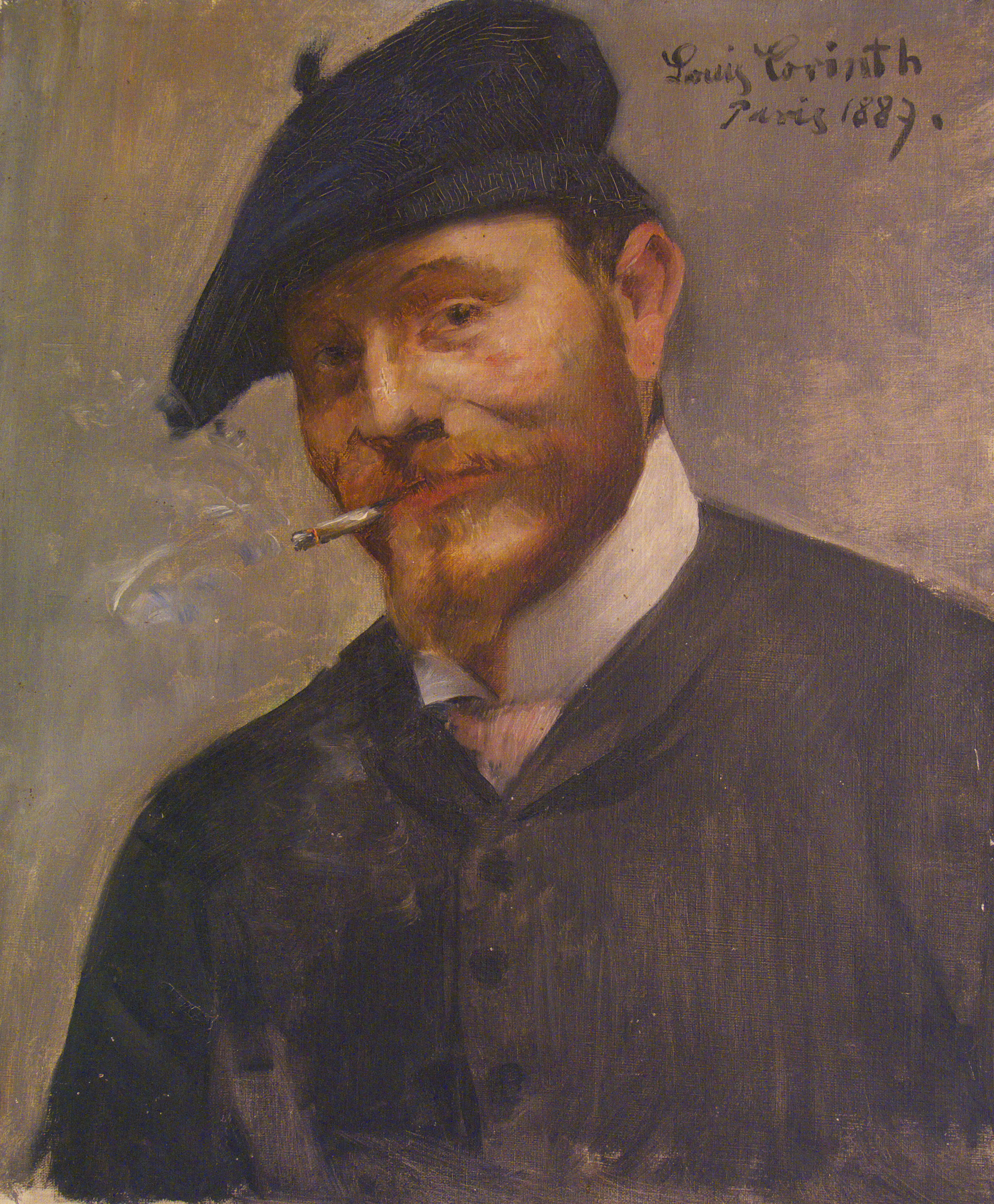 Portrait of François Nardi by Lovis Corinth (1858-1925)